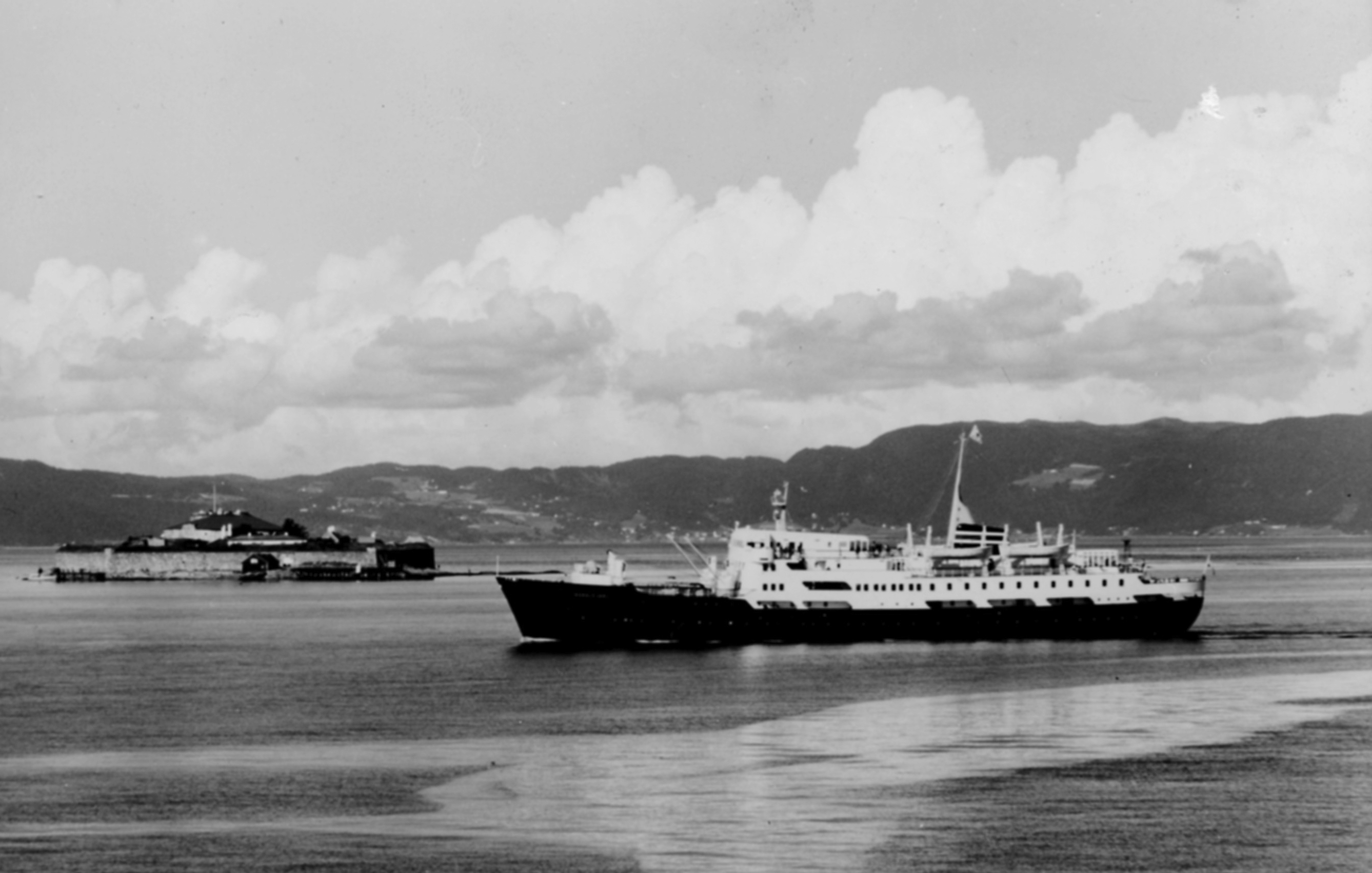 Format: Fotopositiv Dato / Date: Ukjent Fotograf / Photographer: Ukjent Sted / Place: Munkholmen, Trondheim Wikipedia: MS "Harald Jarl" Eier / Owner Institution: Trondheim byarkiv, The Municipal Archives of Trondheim Arkivreferanse / Archive reference: Tor.H43.B75.F5227